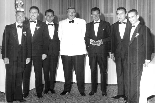 The italian Blue Team, winner of 1966 Bermuda Bowl in St. Vincent, Italy